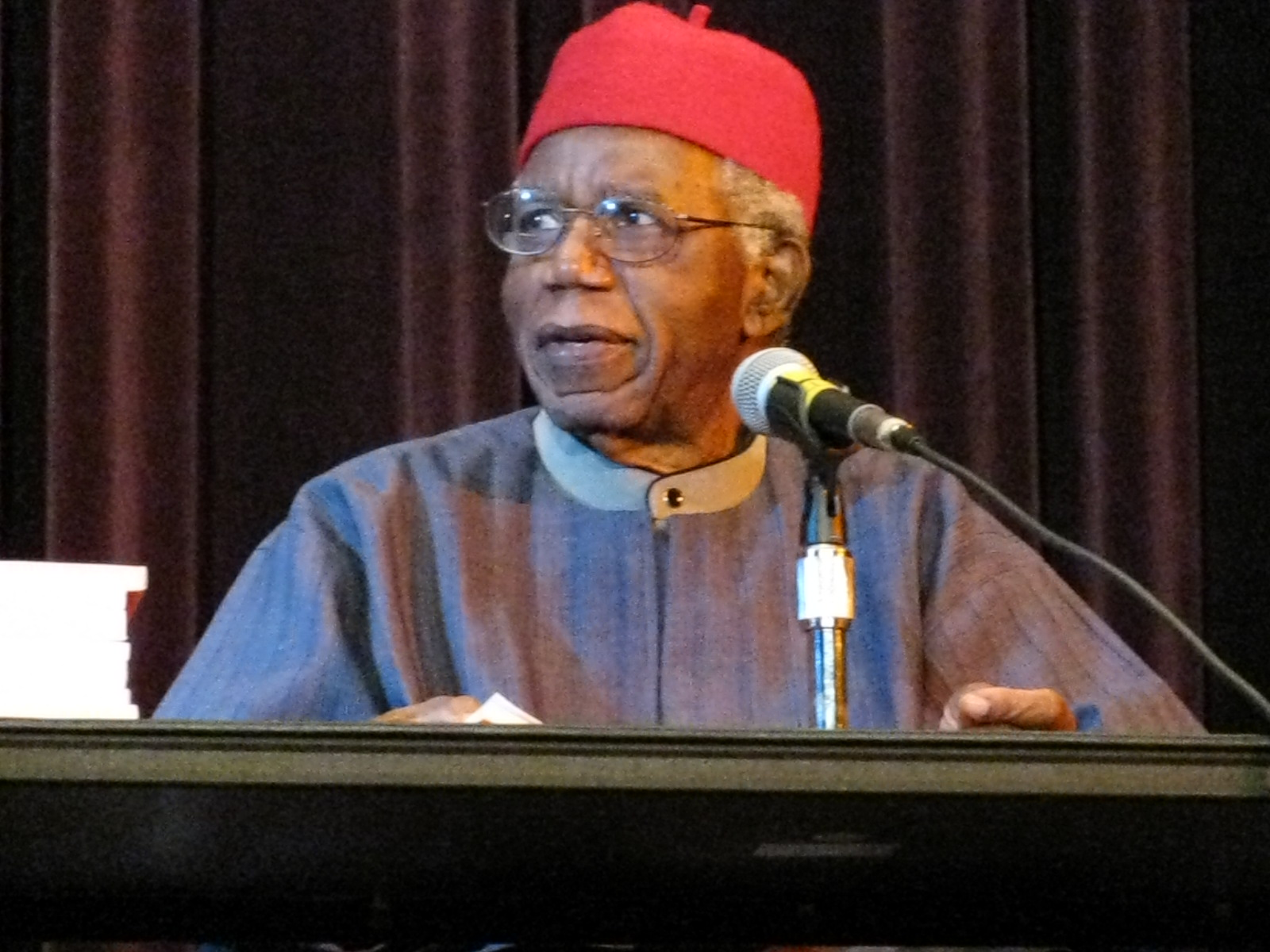 Chinua Achebe speaking at Asbury Hall, Buffalo, as part of the "Babel: Season 2" series by Just Buffalo Literary Center, Hallwalls, & the International Institute.